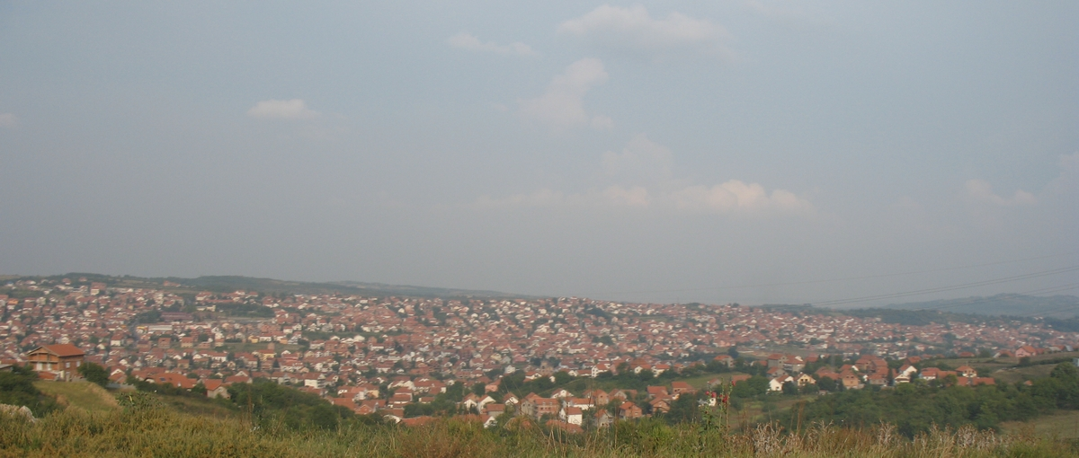 Panoramic view on Kaluđerica in Belgrade, from E 75 Highway, Serbia.